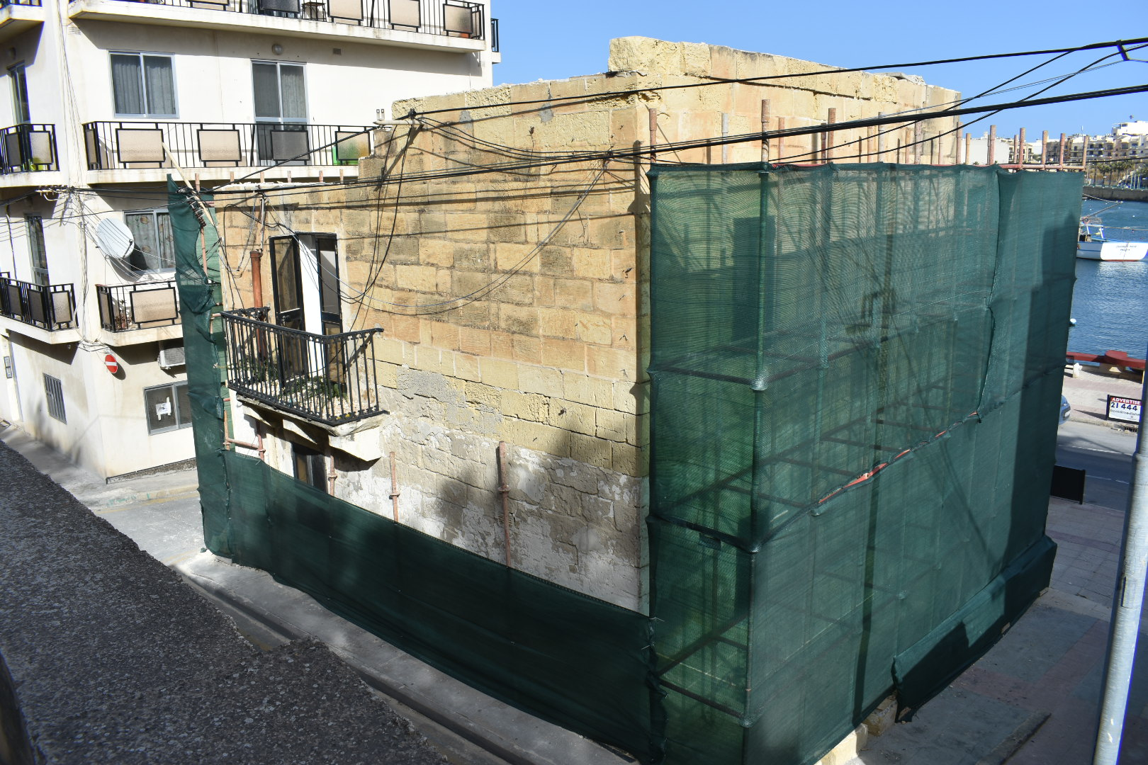 Houses in Marsaskala